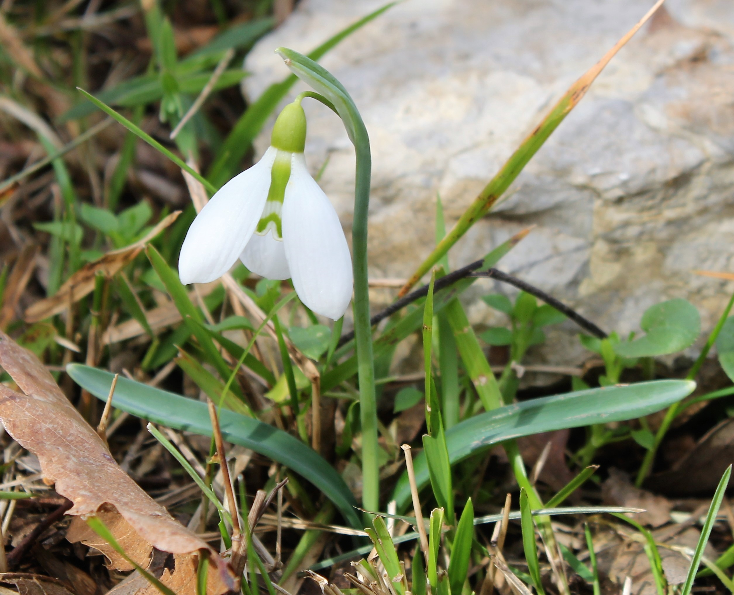 Galanthus plicatus subsp. byzantinus generel